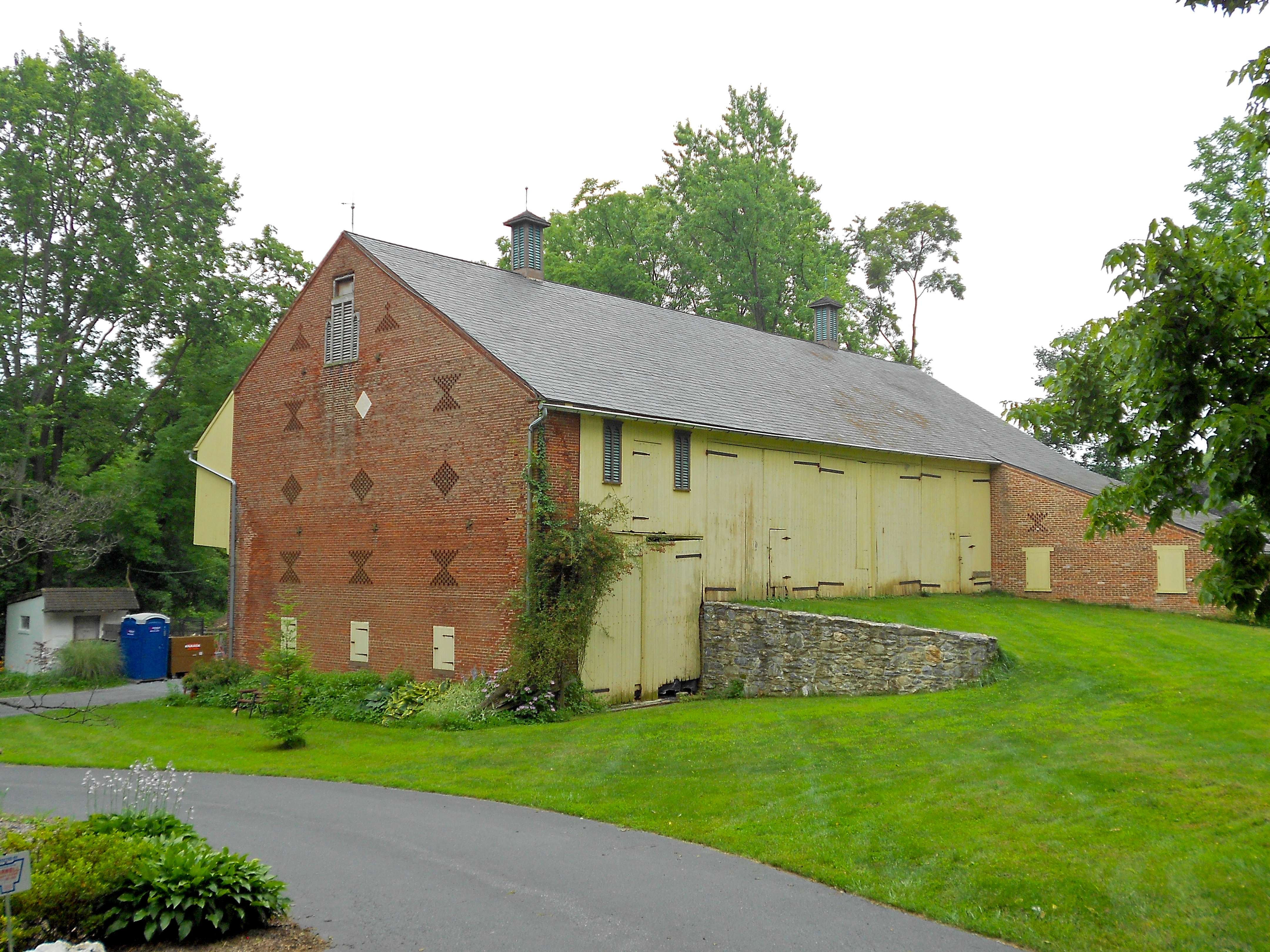 Barn in Bausman Farmstead on the NRHP since August 30, 1994 .1630 (barn) and 1631 (house) on Pennsylvania Route 999 (Millersville Pike), Lancaster Township, Lancaster County, Pennsylvania. This is a Pennsylvania Barn which are usually a bank barn but this example is built on level ground and is a ramp barn. The section on the far right is called an outshot.